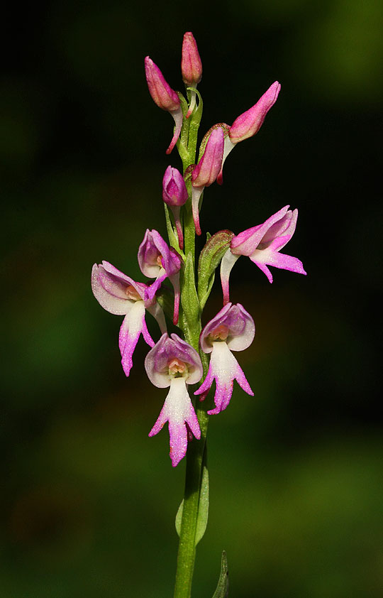 A small Himalayan terrestrial orchid.